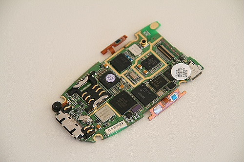 A printed circuit board assembly of a mobile phone.